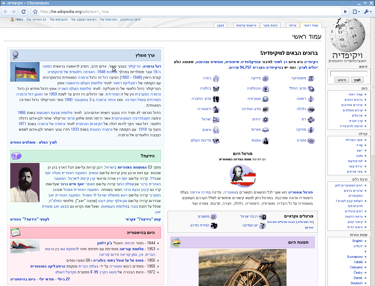 Chromium 2.0.170 Hebrew Wikipedia Screenshot taken on Ubuntu 9.4